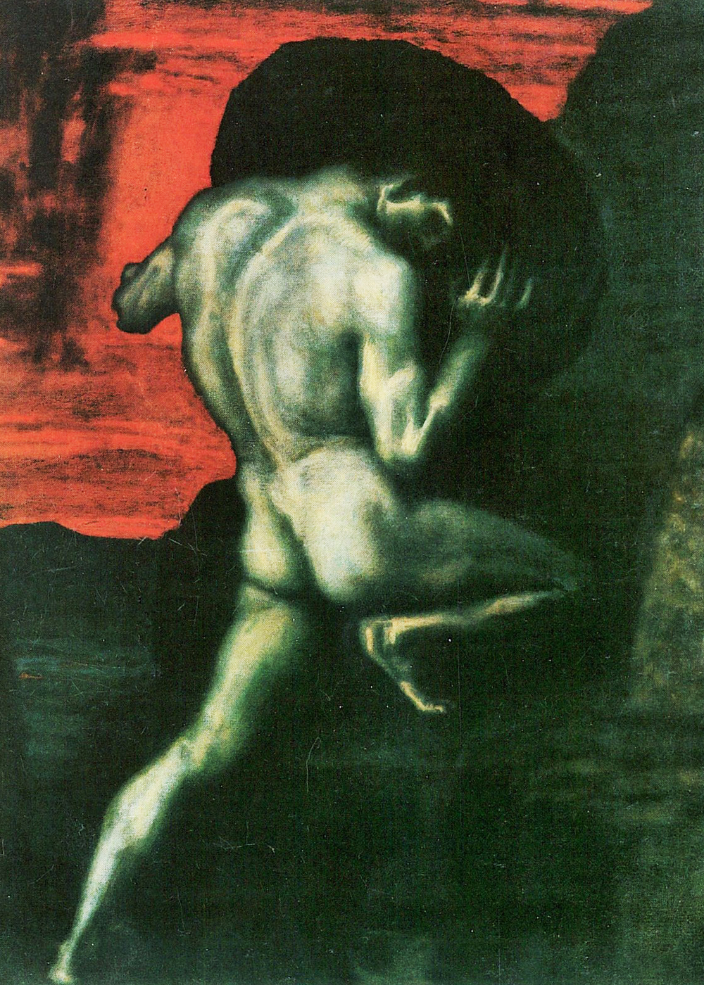 symbolist painting